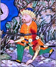 Painting of Bazur in The Shahnama of Shah Tahmasp